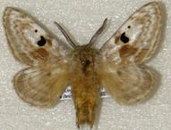 Extracted from Mirina.jpg